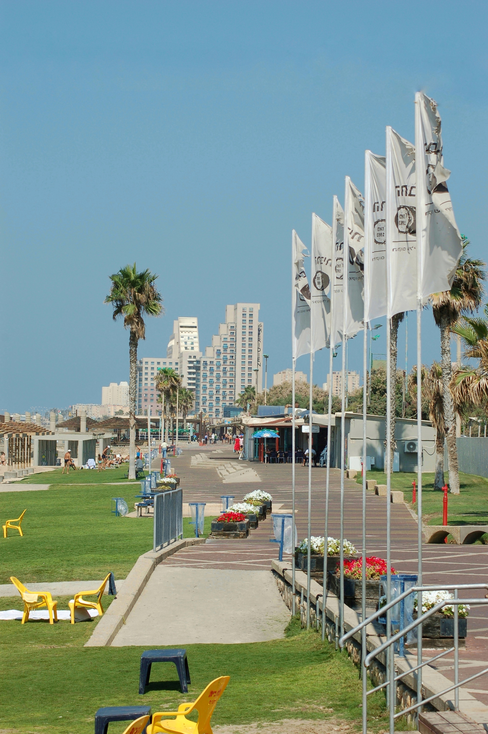 Haifa, Israel South Dado Beach - Hof HaCarmel - Haifa - 7 October 2007 Haifa